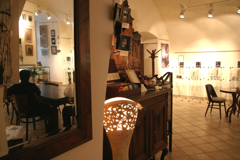 Castle Gallery at the Museum in Bielsko-Biała, Poland